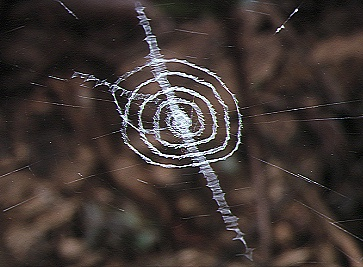 stabilimentum of Octonoba yaeyamensis from Okinawa.